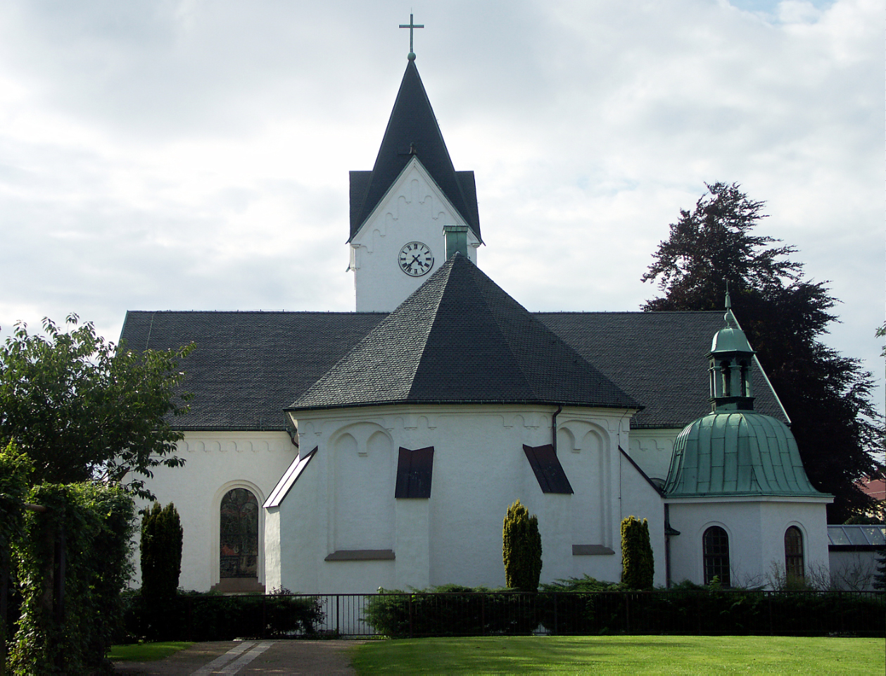 Ängelholms kyrka (Church of Ängelholm) seen from the back.